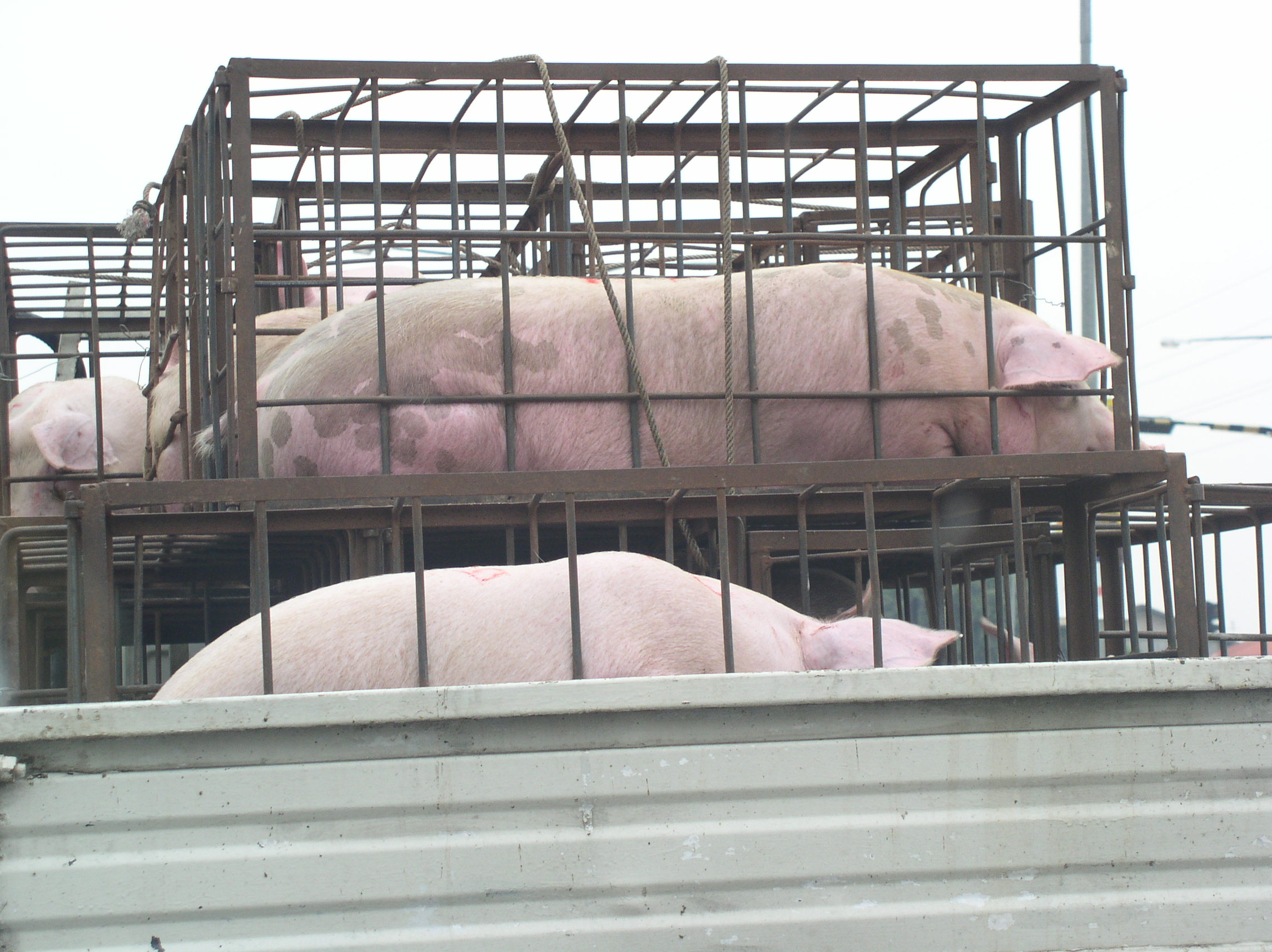 Pig transport in cages